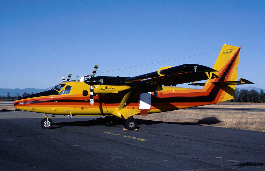 Austin Airways de Havilland Canada DHC-6-300 Twin Otter C-GFJC at Redding Municipal Airport